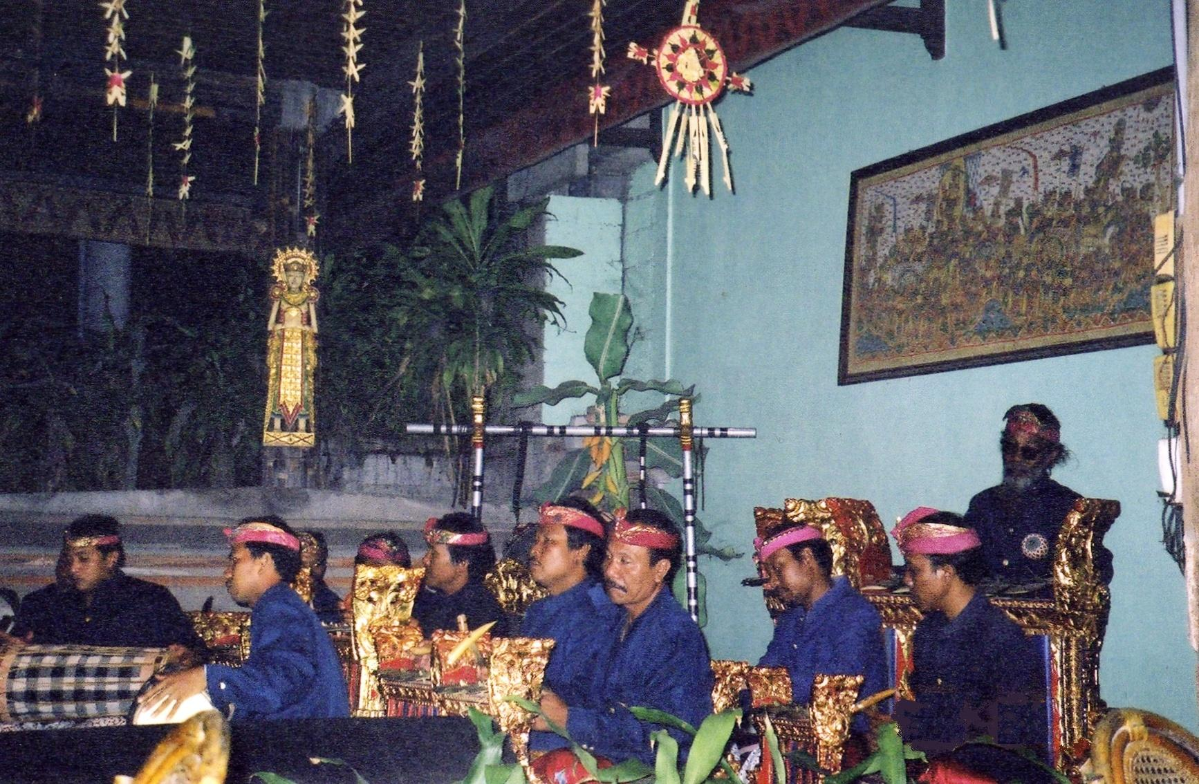 Music being played to accompany dancers. Photo: G Larson